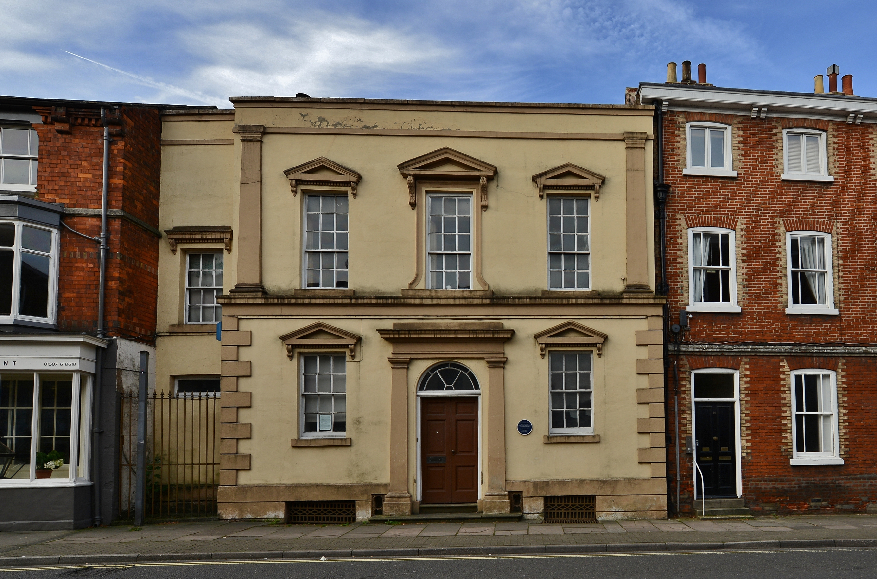 Louth: The Mansion House c.1750